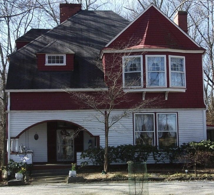 2015 photograph of L.W.McKee house (ca. 1886) at Lawrenceburg KY